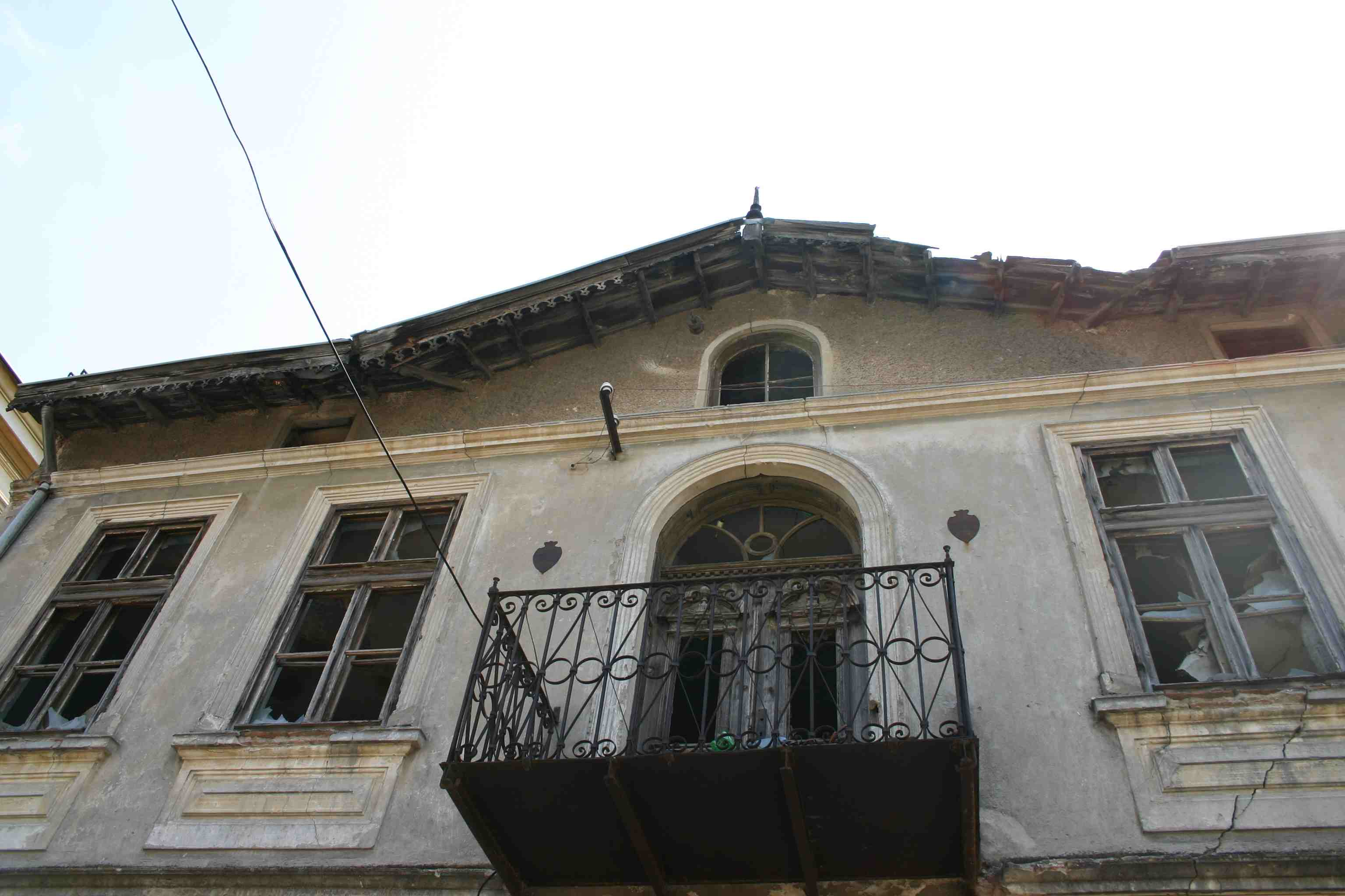 House in Prilep, Republic of Macedonia, where bulgarian tzar Boris III spent his time during his visit in 1942 year